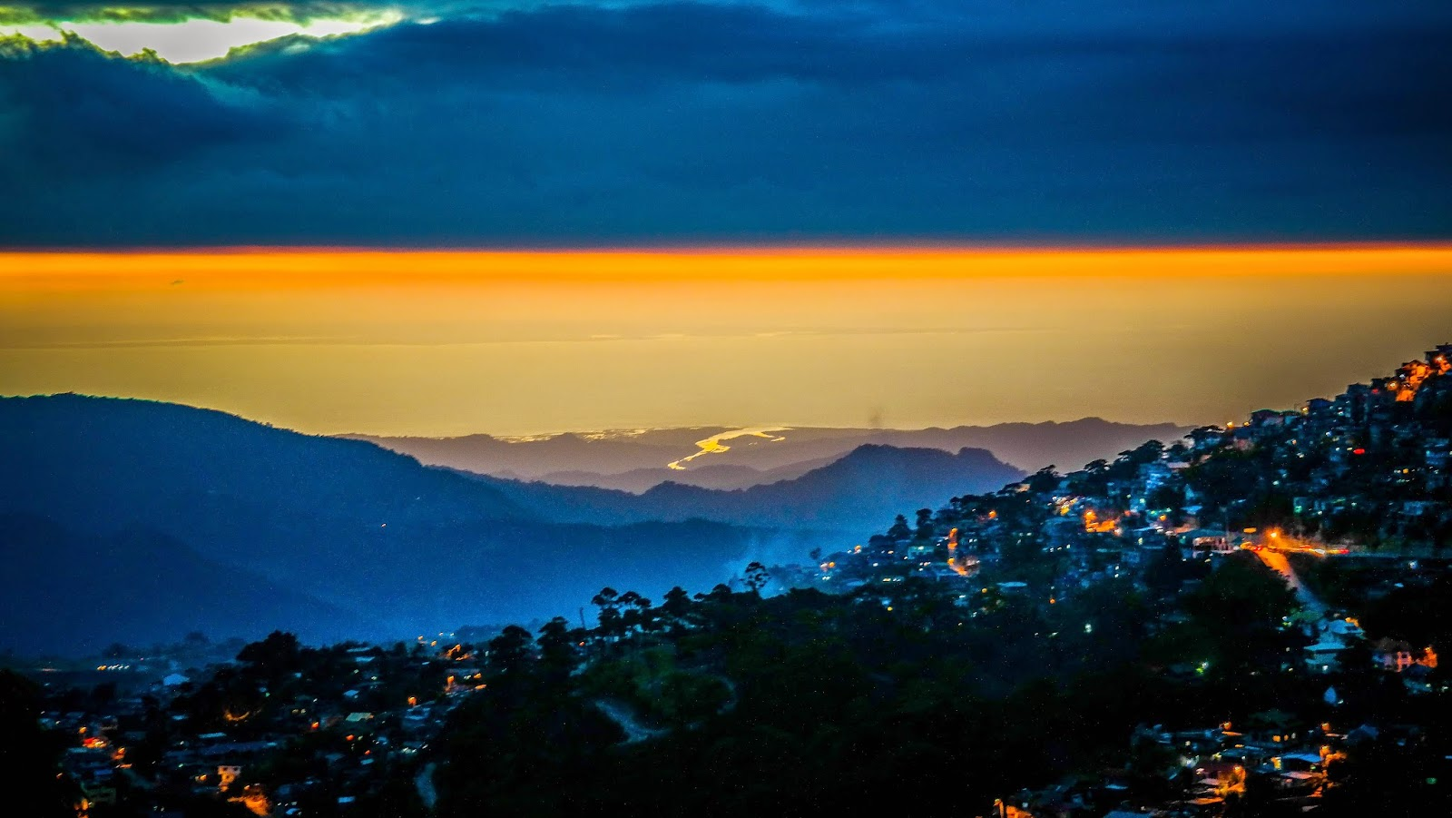 Photo taken at the roof deck of Mirador Jesuit Villa